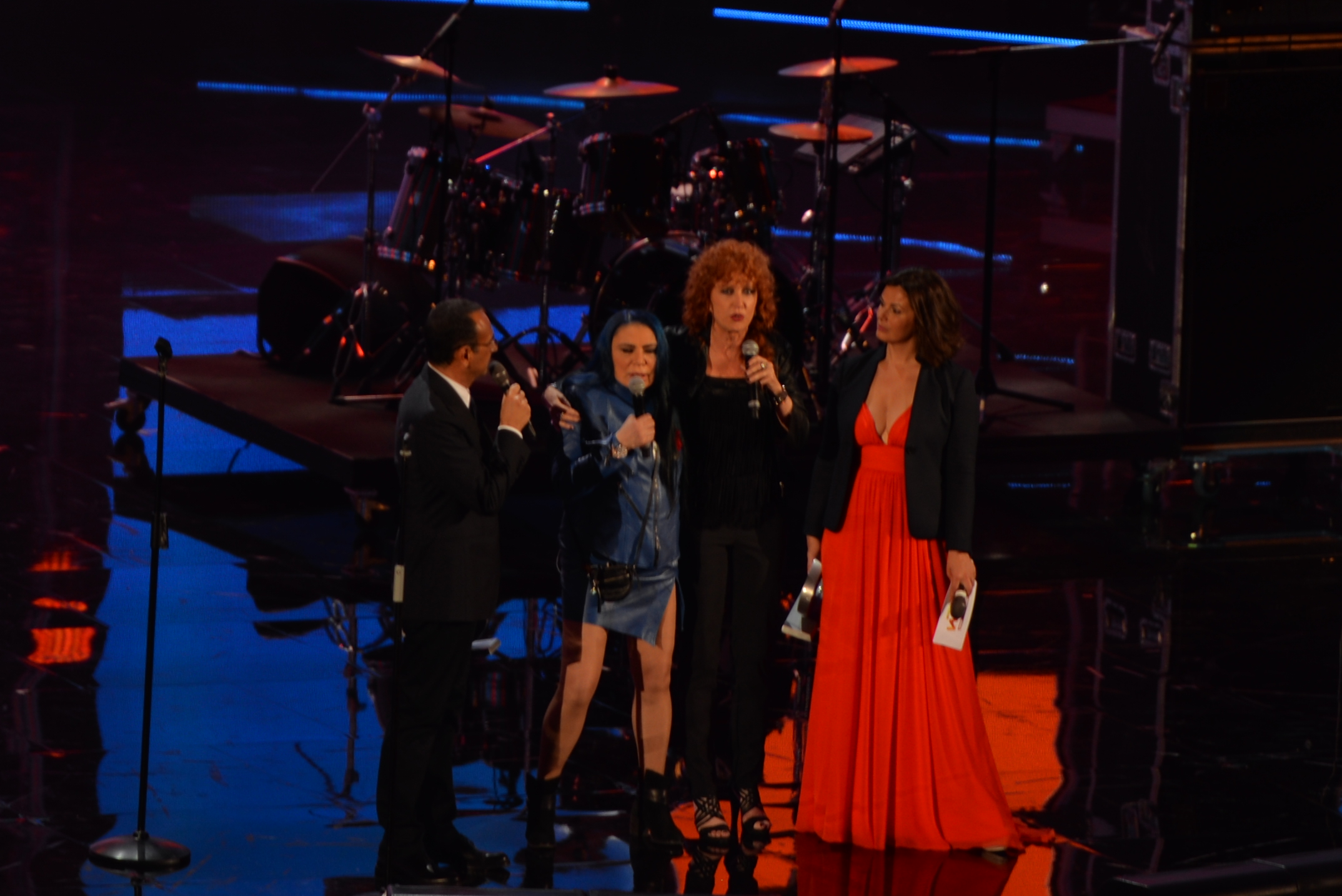 Loredana Bertè and Fiorella Mannoia during the Wind Music Awards 2016 ceremony at Verona Arena